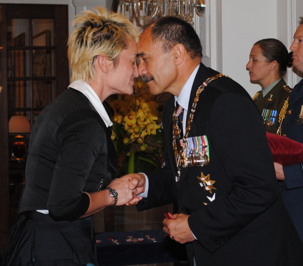 Merata Kawharu and the governor-general, Sir Jerry Mateparae, hongi at Kawharu's investiture as MNZM, for services to Māori education, on 1 May 2012.